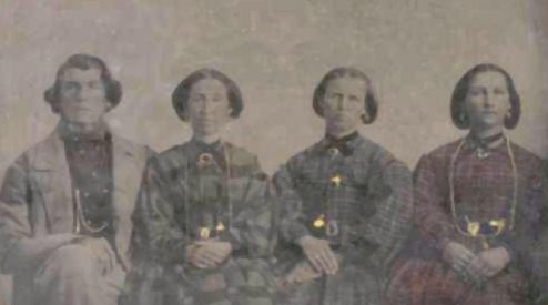 Portrait of Ira Eldredge with his three wives: Nancy Black Eldredge, Hannah Mariah Savage Eldredge, and Helvig Marie Andersen Eldredge. Ira was bishop of the Sugar House ward at the time the image was taken.